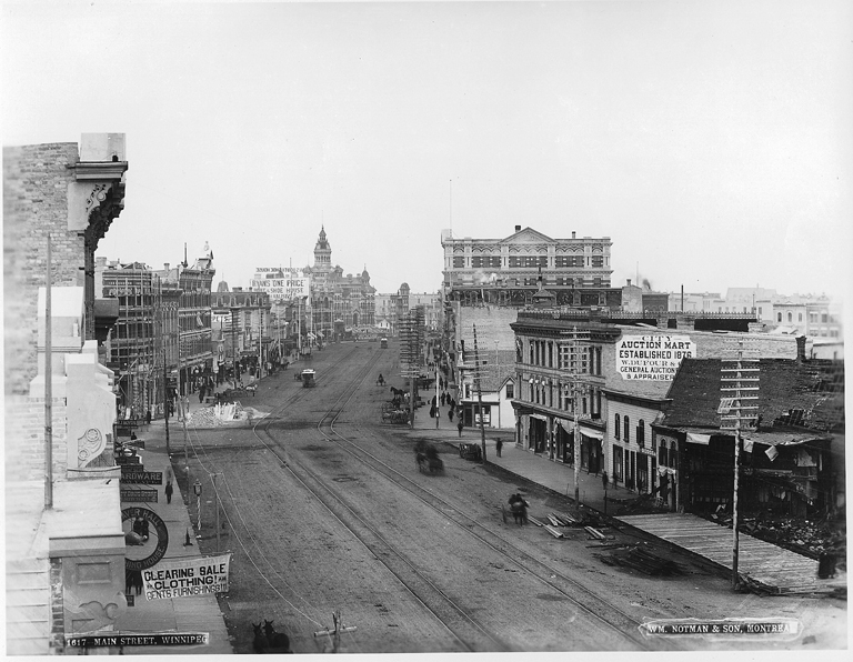 Main Street, Winnipeg, Manitoba, Canada, 1887